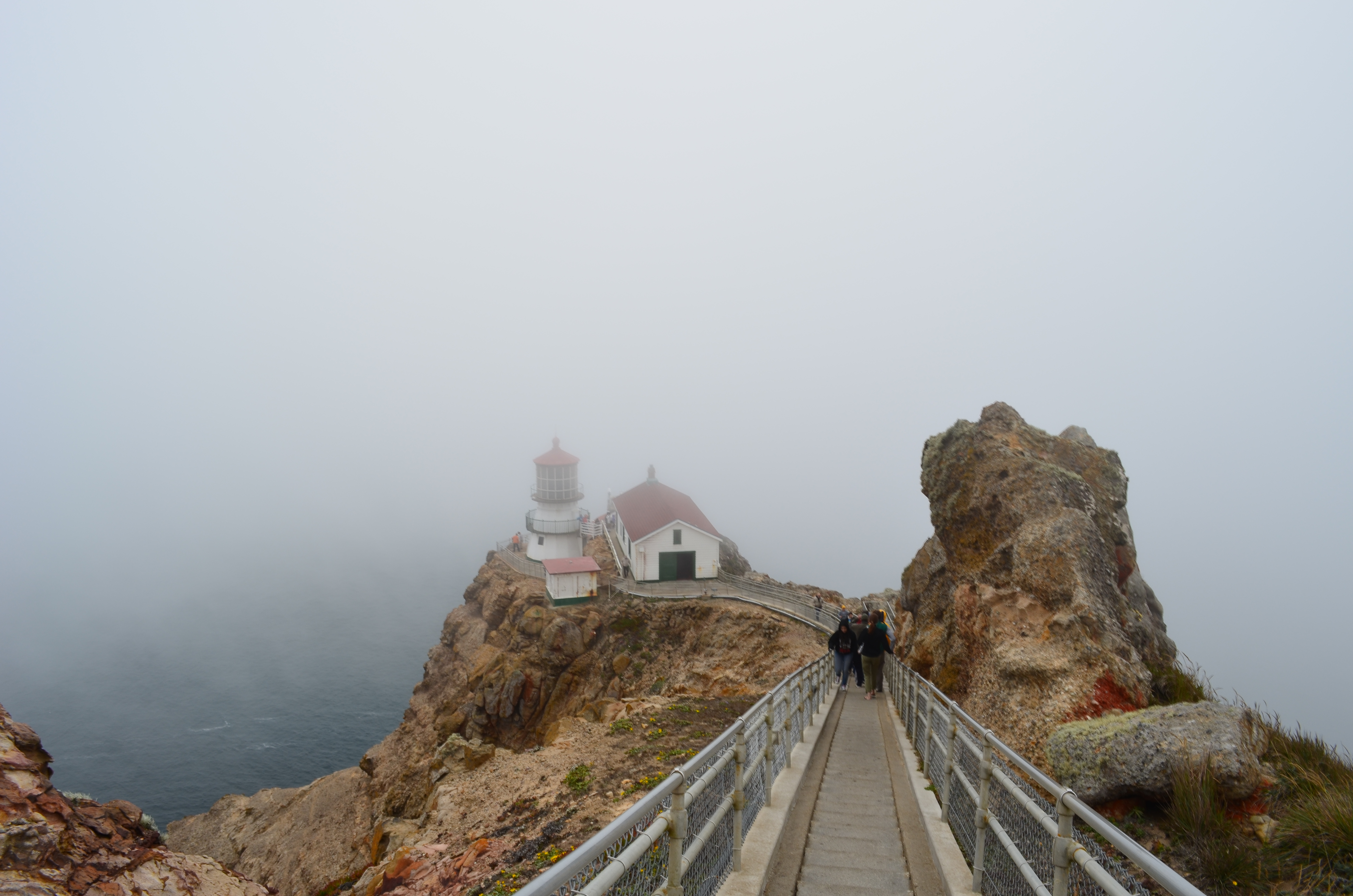 Point Reyes Light Station